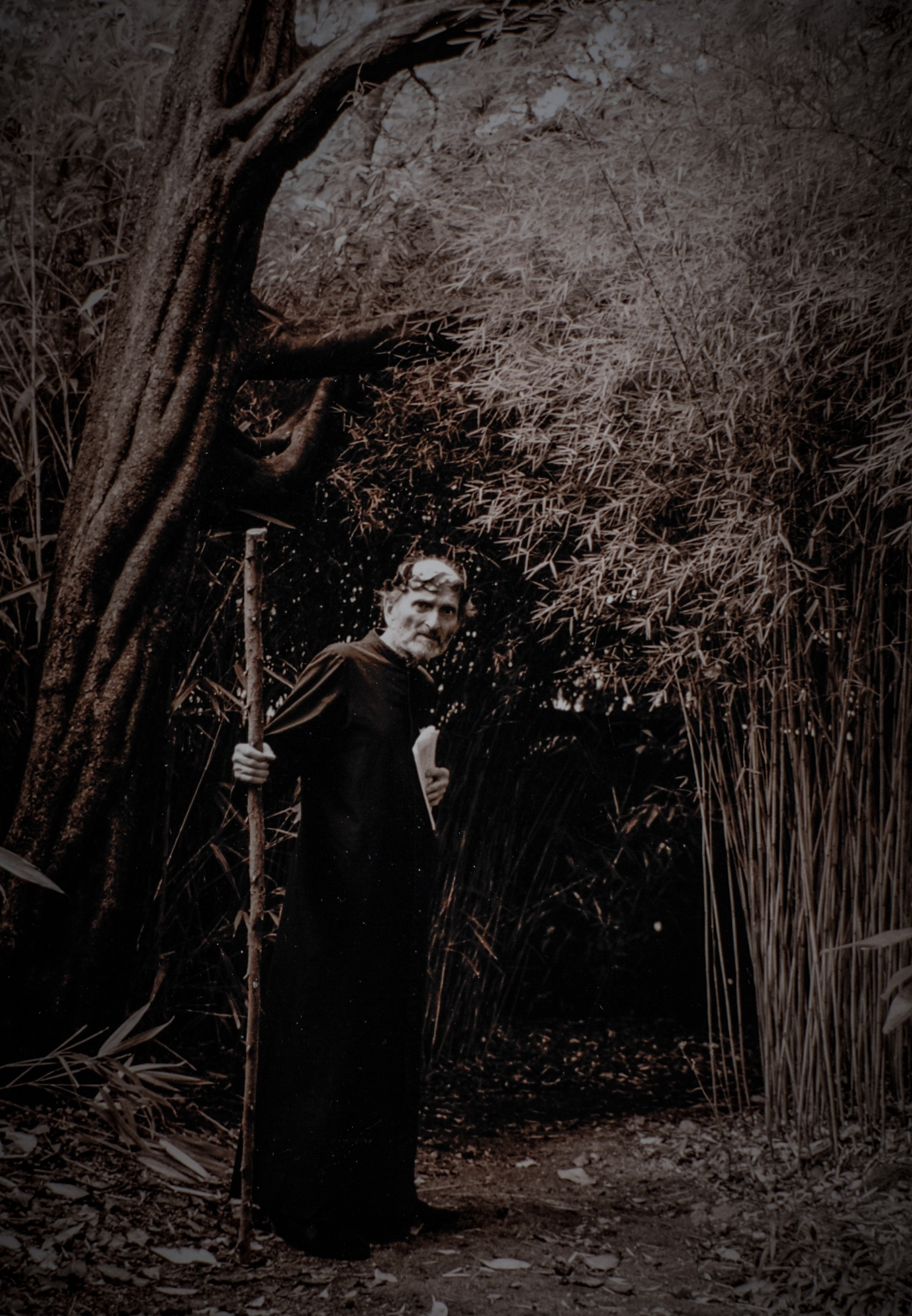 Abraham in Arthur Ericksons garden posing as the character of Dante in his play, 'Descent to the Underworld'.